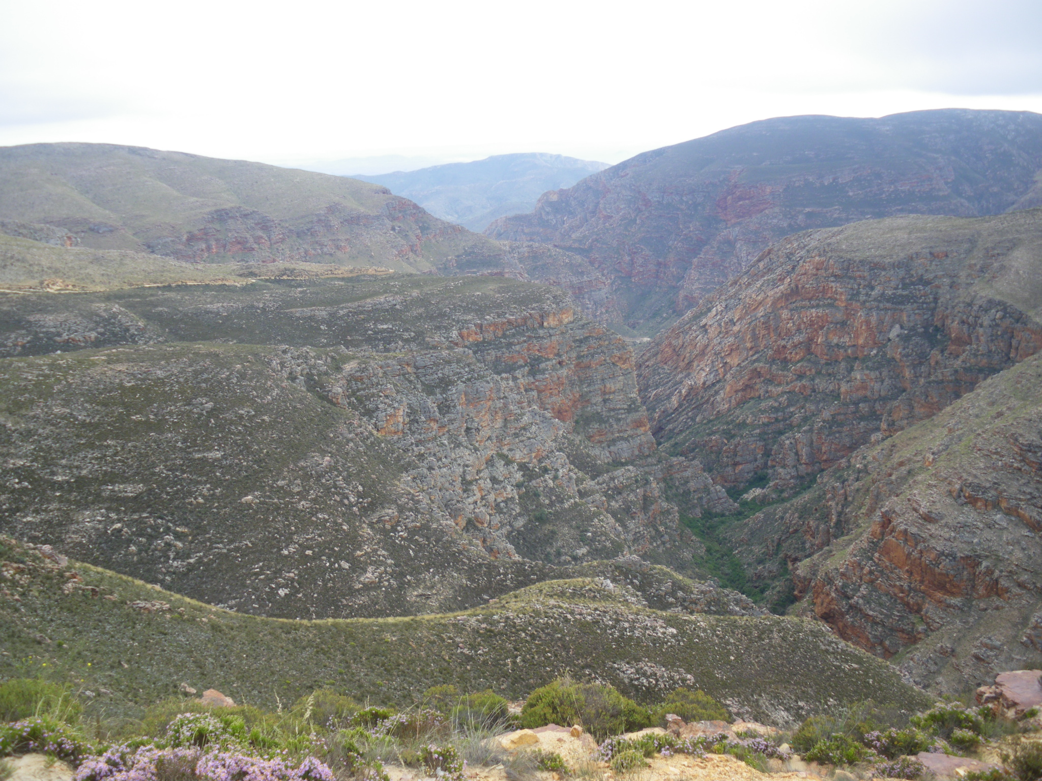 Swartberg Pass, Western Cape Province, South Africa.